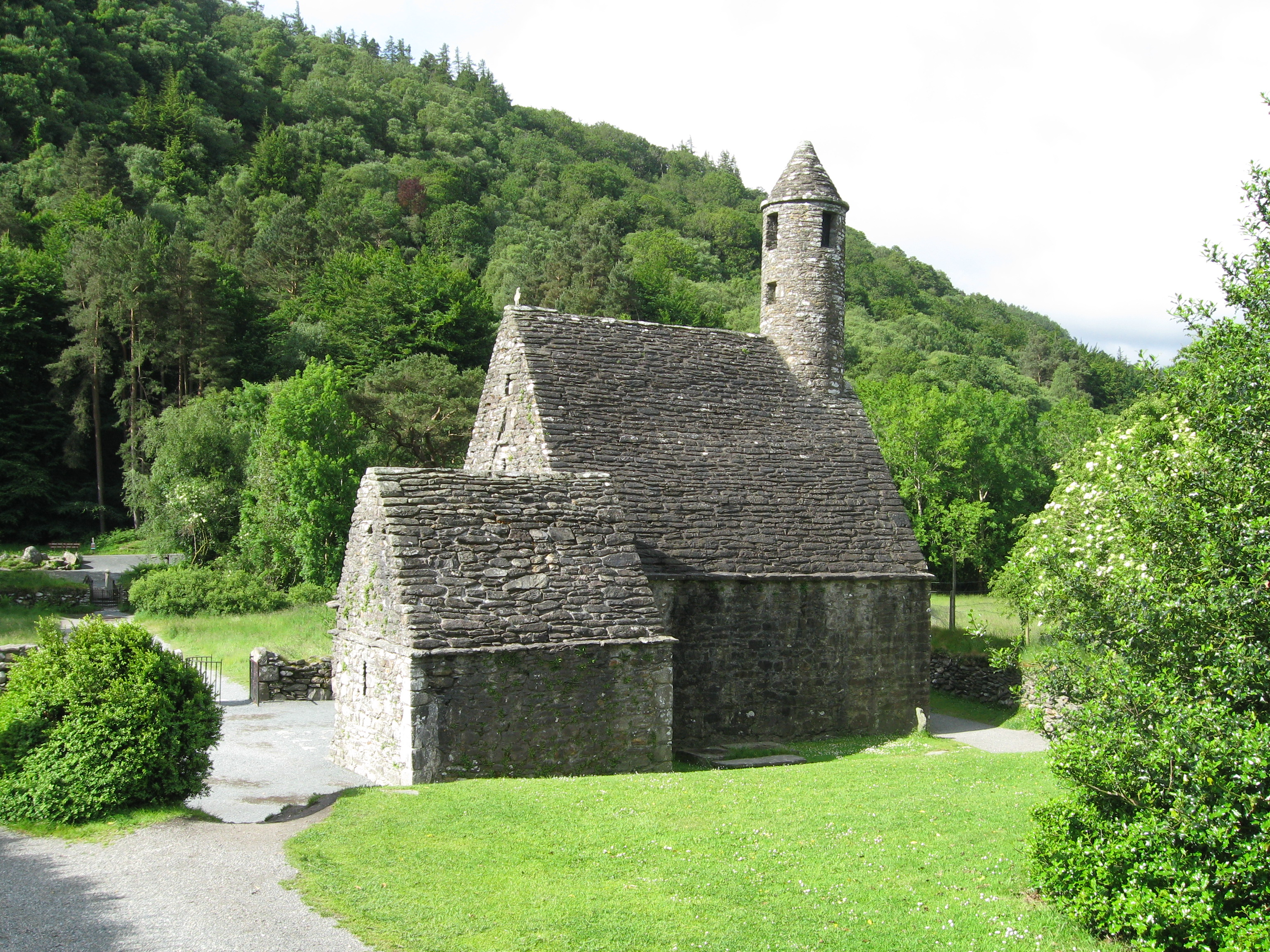 A picture of St. Kevin's Church, taken in the early morning of June 19, 2008. Glendalough, County Wicklow, Ireland